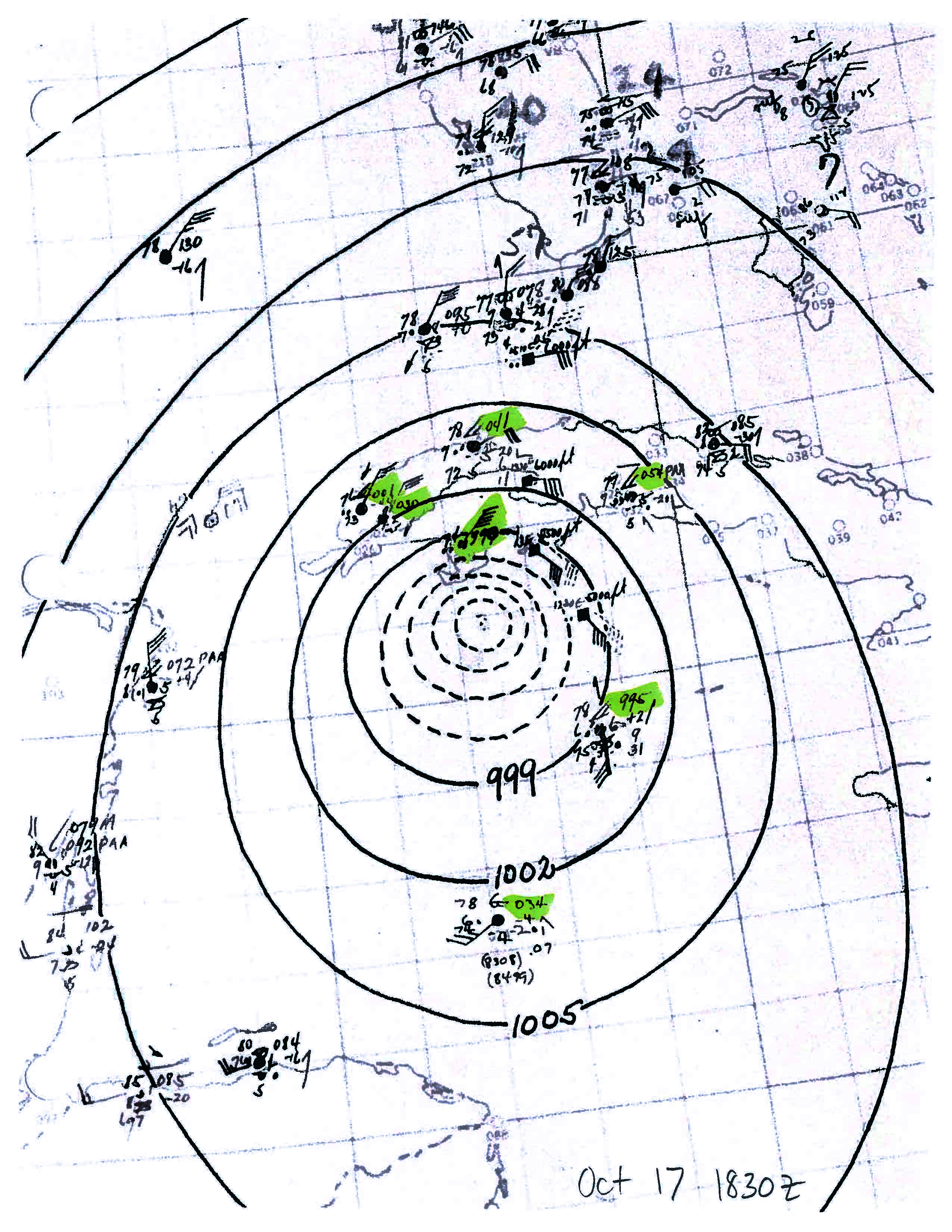 Surface weather analysis of the thirteenth Atlantic tropical cyclone of 1944 on October 17 at 1800 UTC. At the time, the storm was strengthening and nearing landfall on Western Cuba as a Category 3 hurricane.